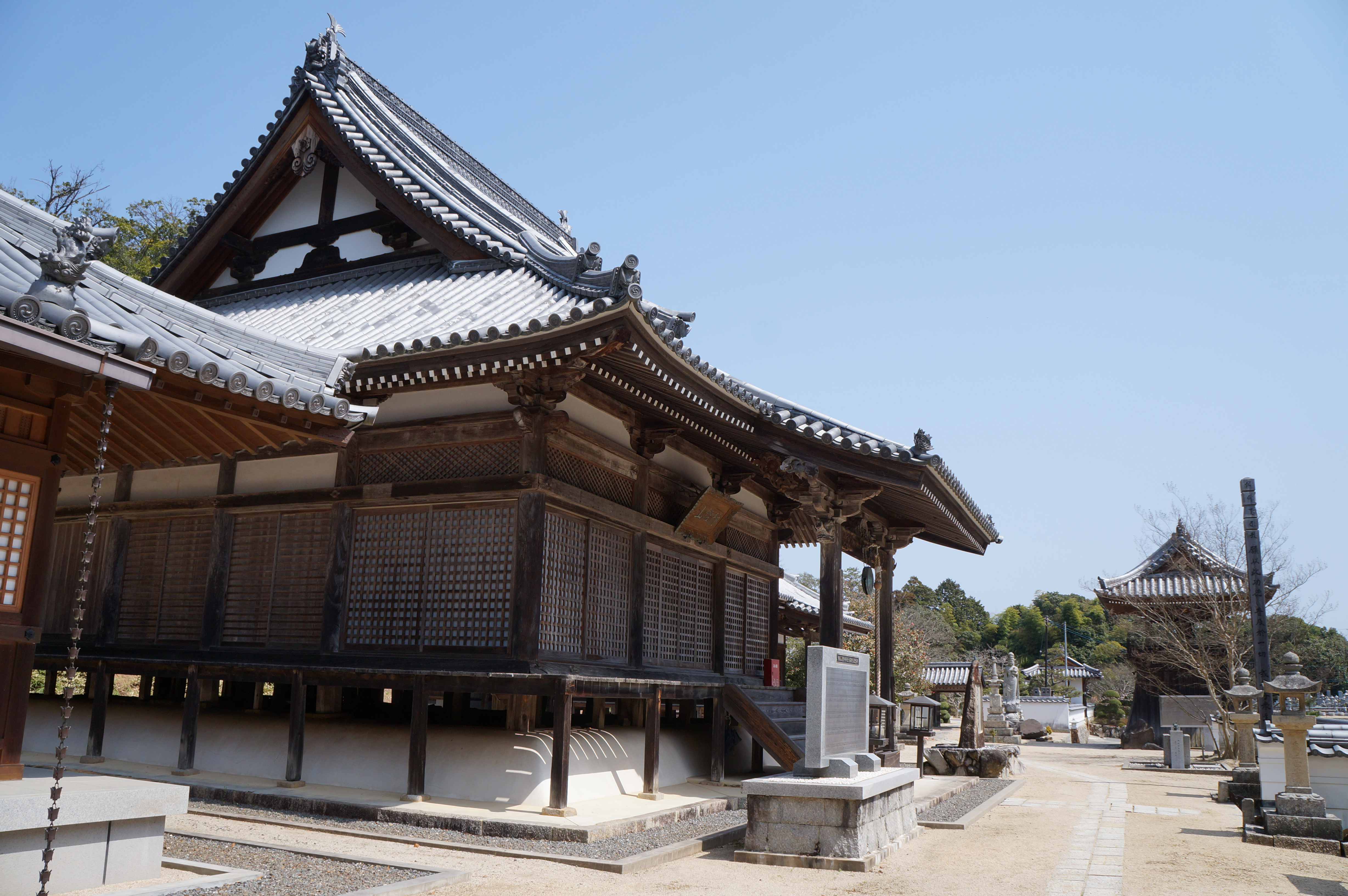 Buraku-ji temple